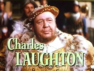 Cropped screenshot of Charles Laughton from the trailer for the film Young Bess